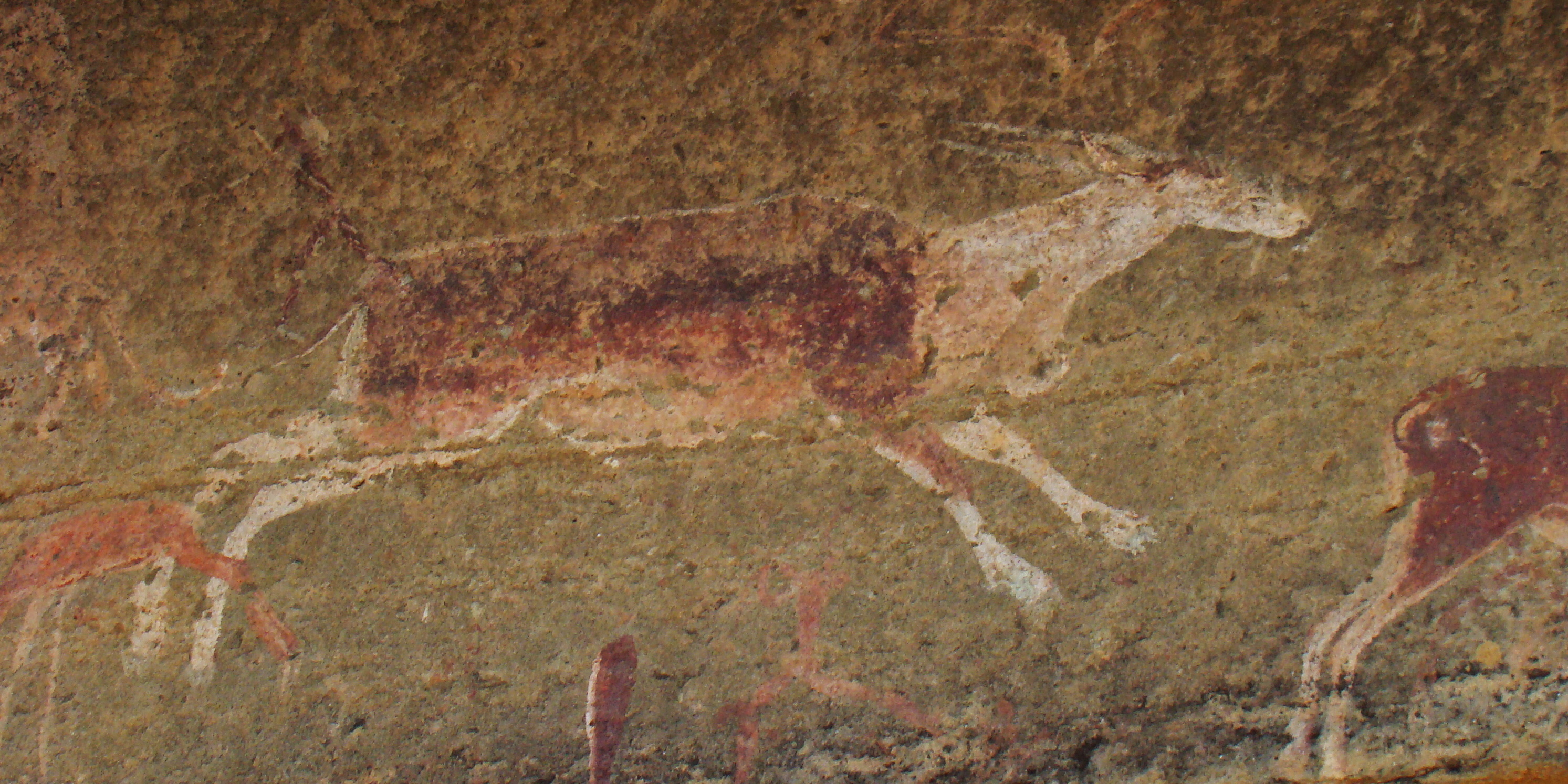 San/Bushman Rock art, Ukalamba Drakensberge, South Africa. It shows an Eland